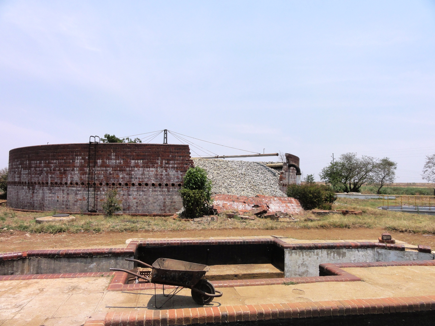 Broken down WWTP in Norton. Photo taken by P. Feiereisen on 19 October 2011in Norton, Zimbabwe.